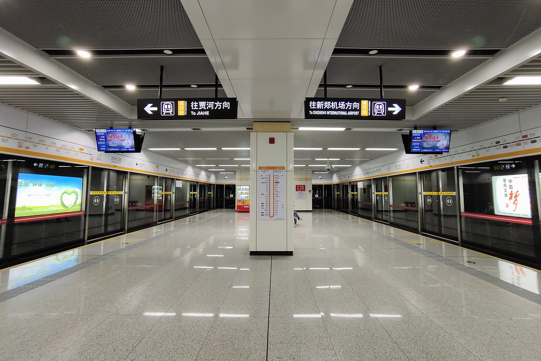 Platforms of Lanhegongyuan Station of Zhengzhou Metro